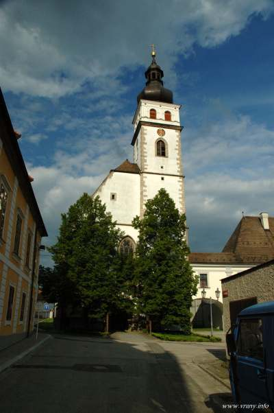 Nové hrady church